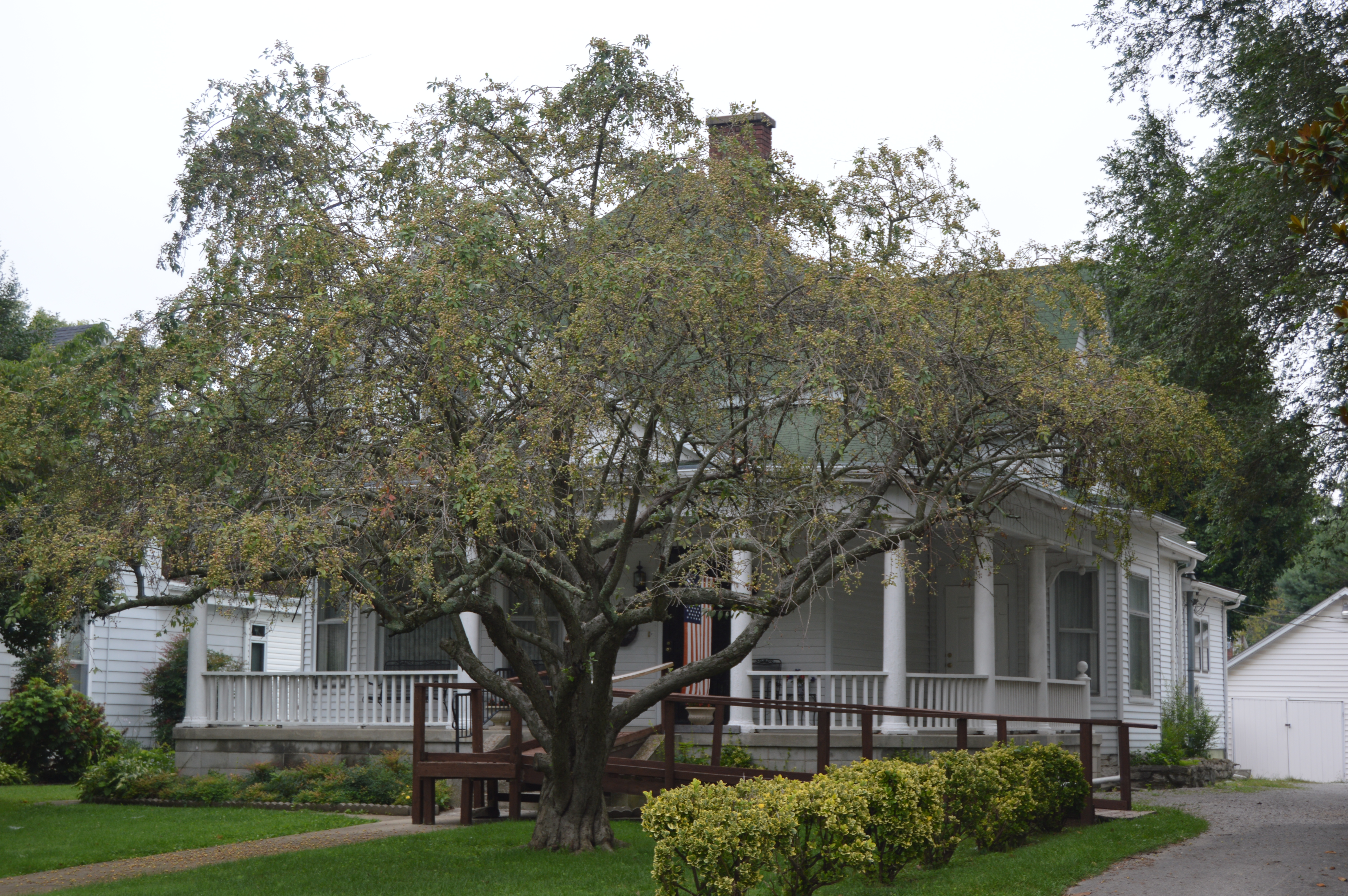 Front and eastern side of the Morrow House, located at 208 E. Oak Street in Somerset, Kentucky, United States. Built in 1904 as the home of future Governor Edwin P. Morrow, it is listed on the National Register of Historic Places.